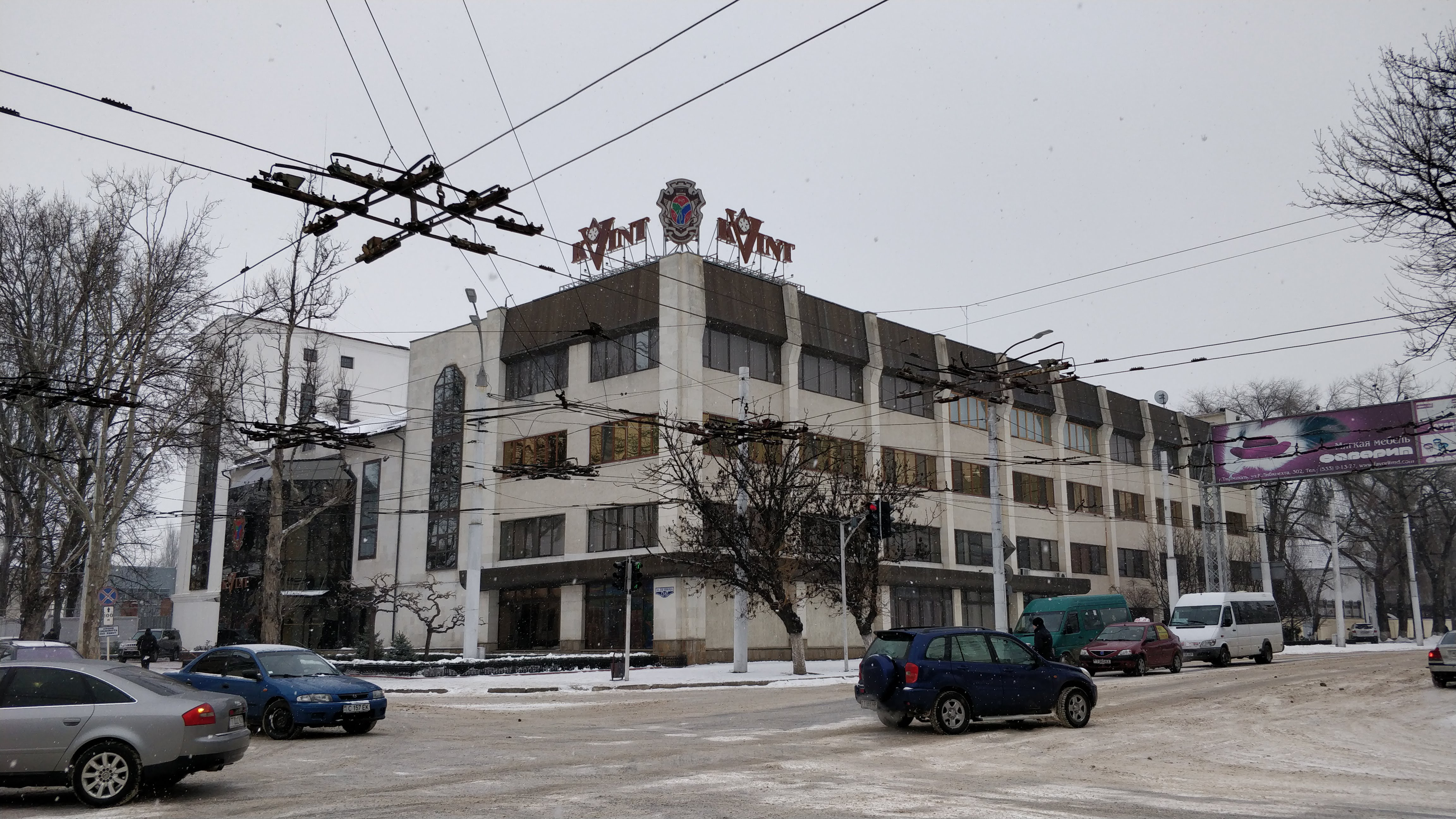 Kvint Headquarter, Tiraspol